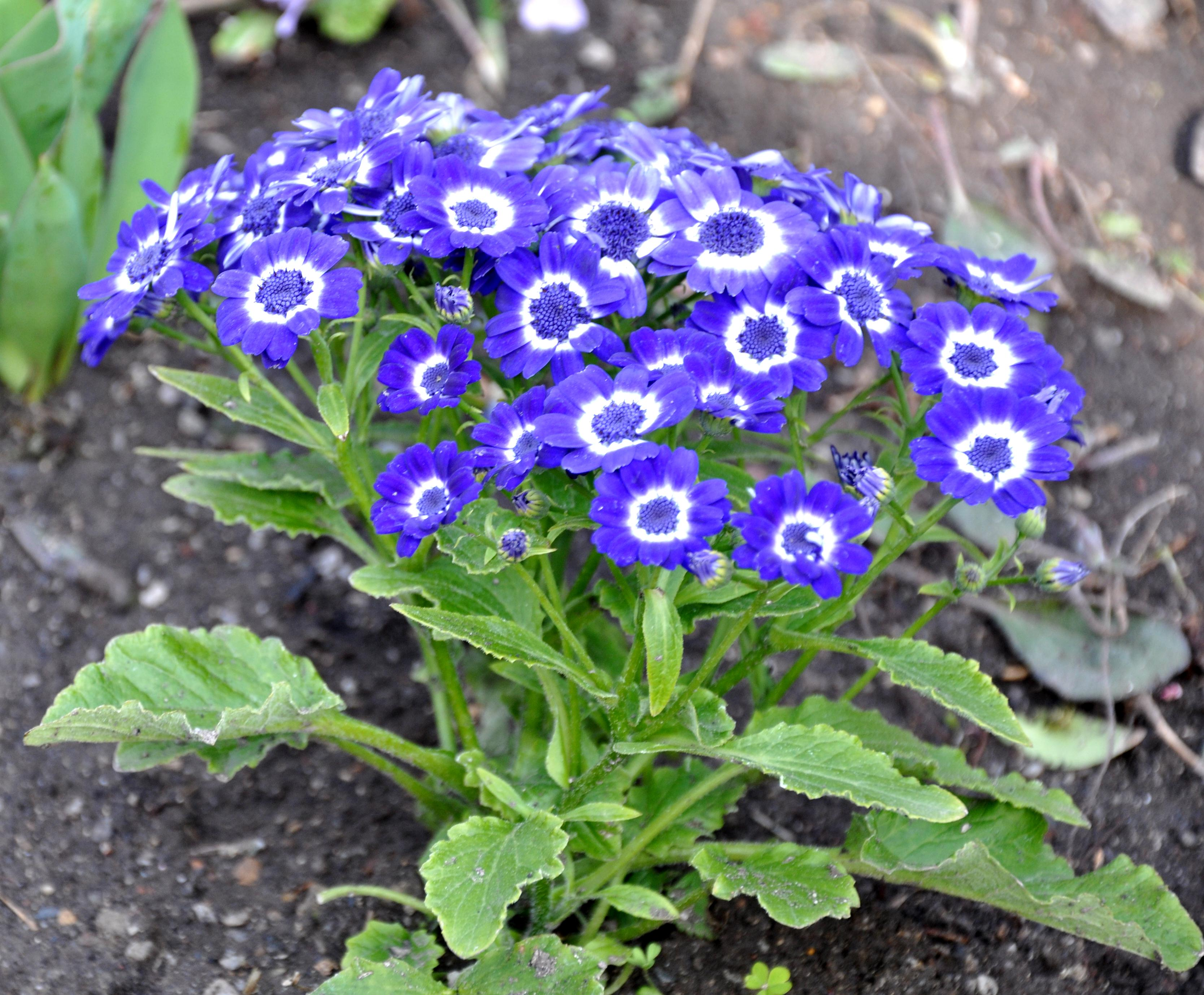 Taken in Tbilisi